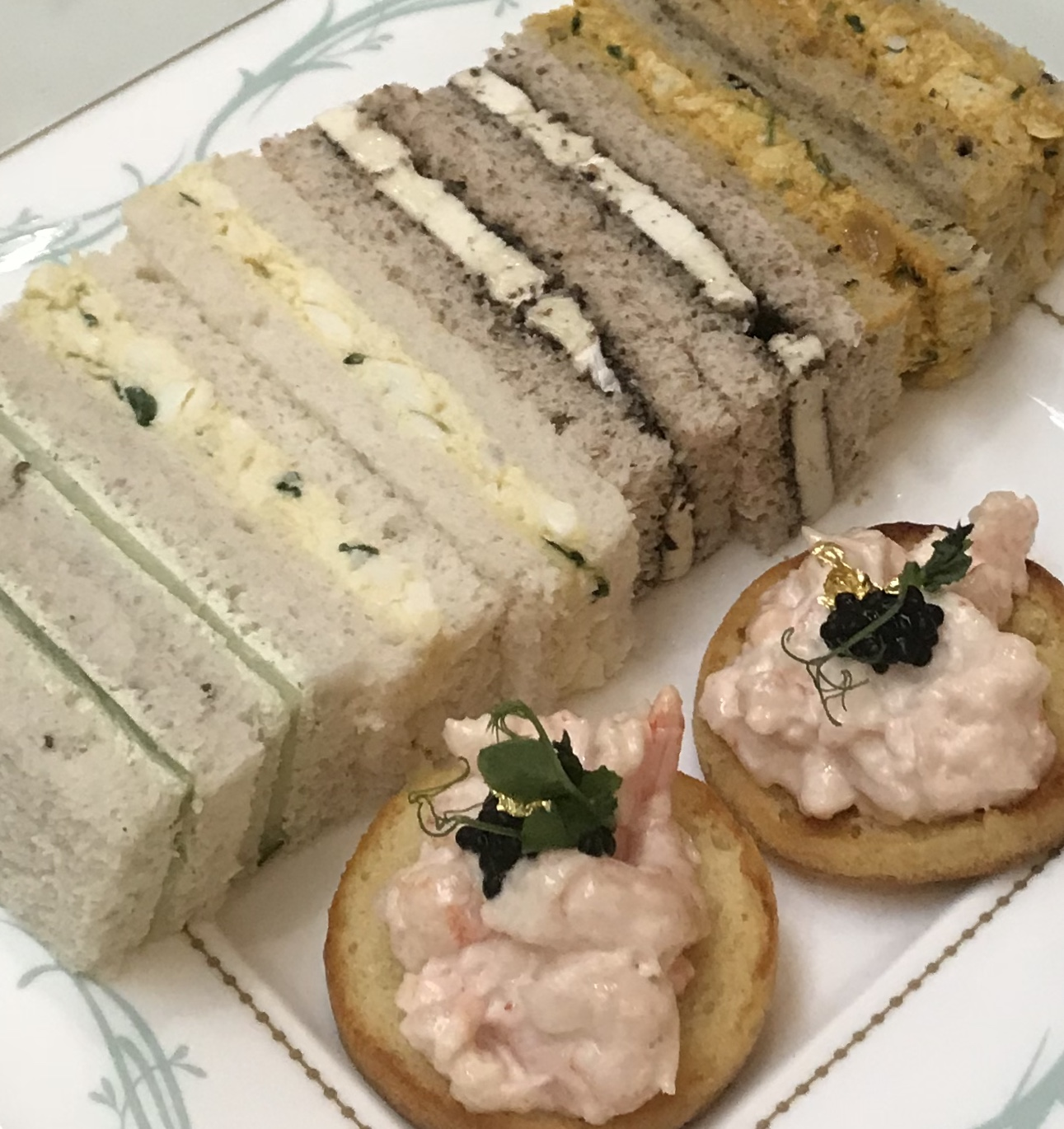 Finger sandwiches: cucumber, egg, cheese, curried chicken, with shrimp canapés during High Tea at the Savoy Hotel (London)